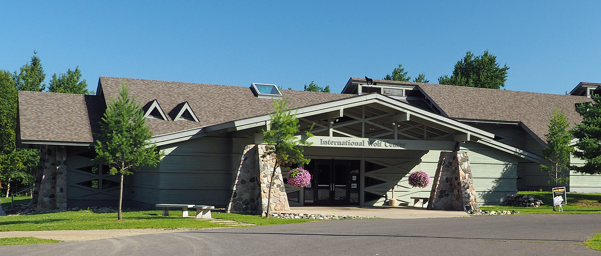 International Wolf Center, 1396 Highway 169, Ely, Minnesota, USA. Viewed from the south.